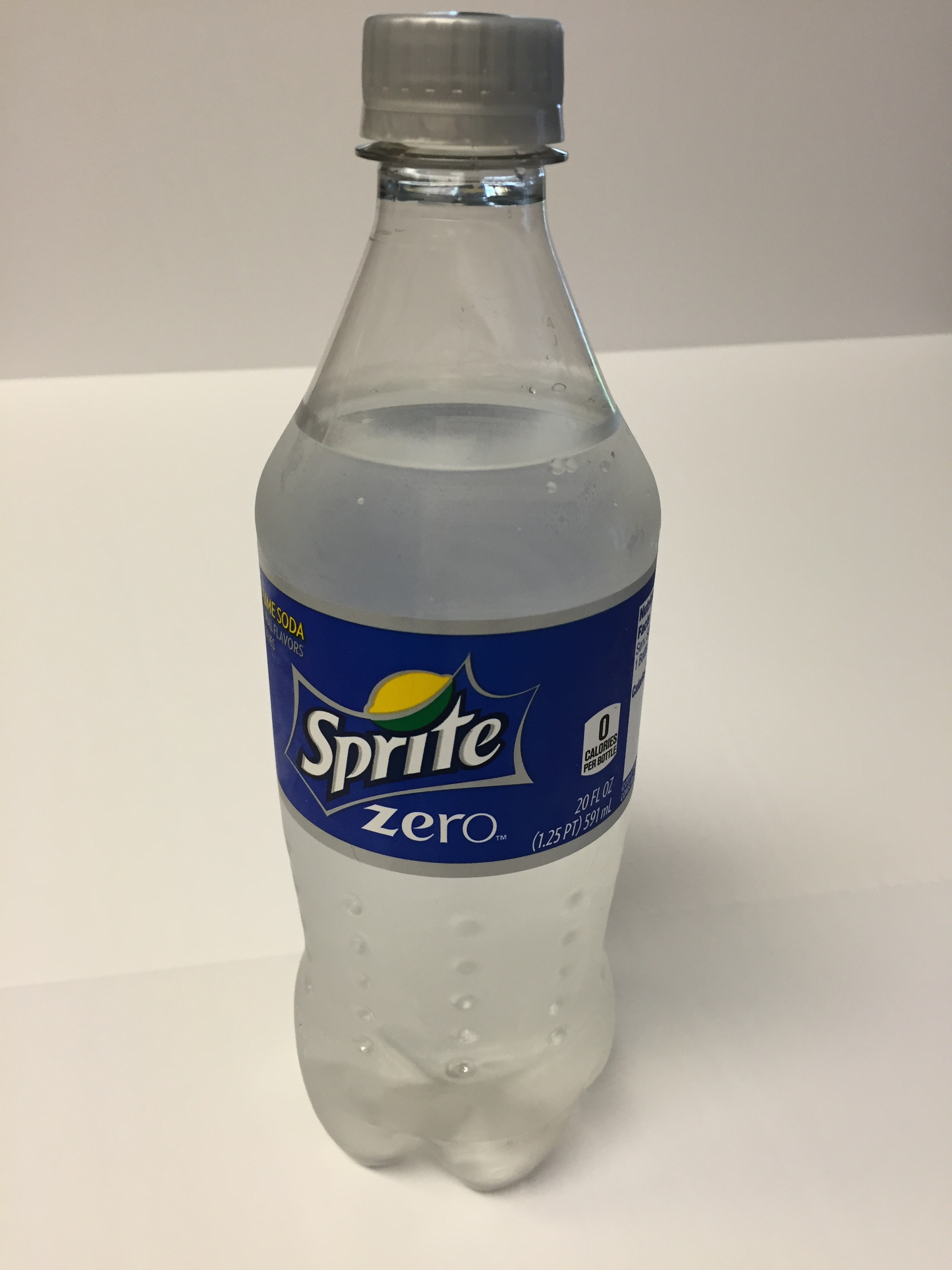 20 oz bottle of Sprite Zero purchased from Walgreens, May 31 2016